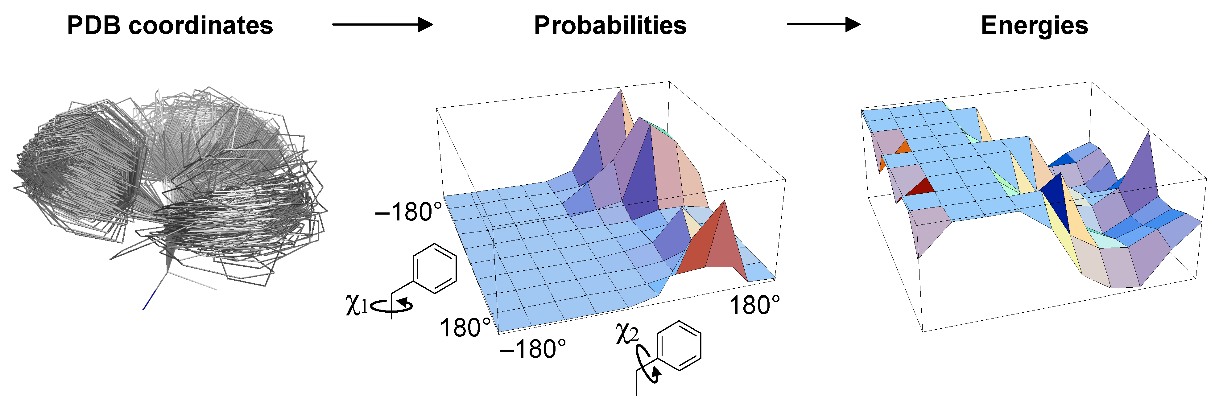 Knowledge-based potential energy function.